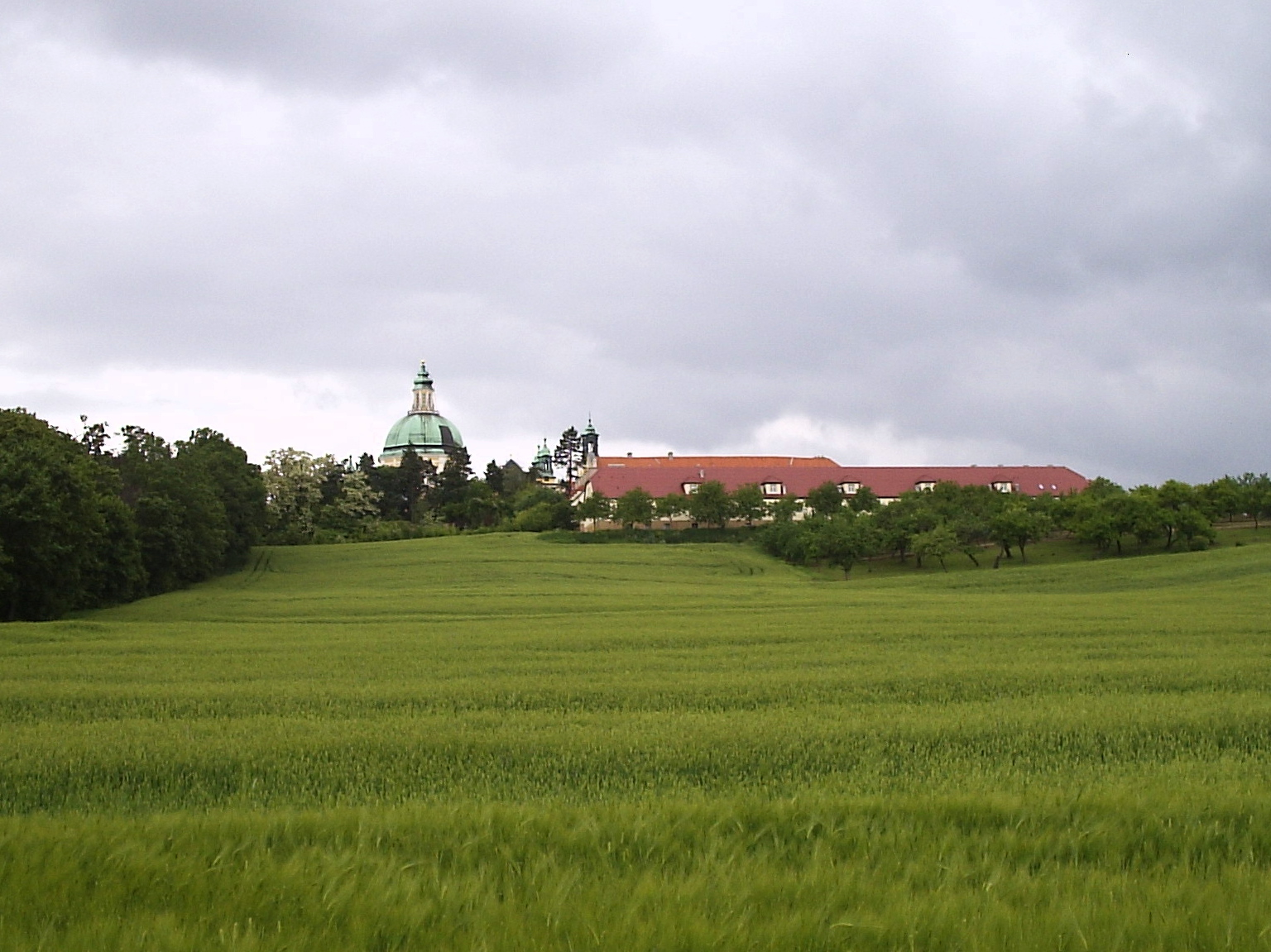 The Church on the Holy Hill - Głogówko near Gostyń, Poland